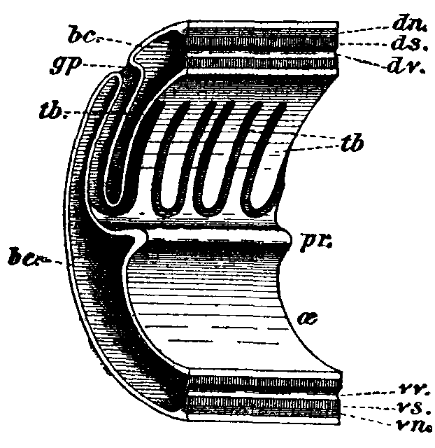 Illustration from 1911 Encyclopædia Britannica, article BALANOGLOSSUS. Fig. 2.—Structure of branchial region. bc, coelom. tb, tongue-bars. ds, mesentery. pr, ridge. vv, vessel. gp, gill-pore. dn, dorsal nerve. dv, vessel. œ, oesophagus. vs, mesentery. vn, ventral nerve.